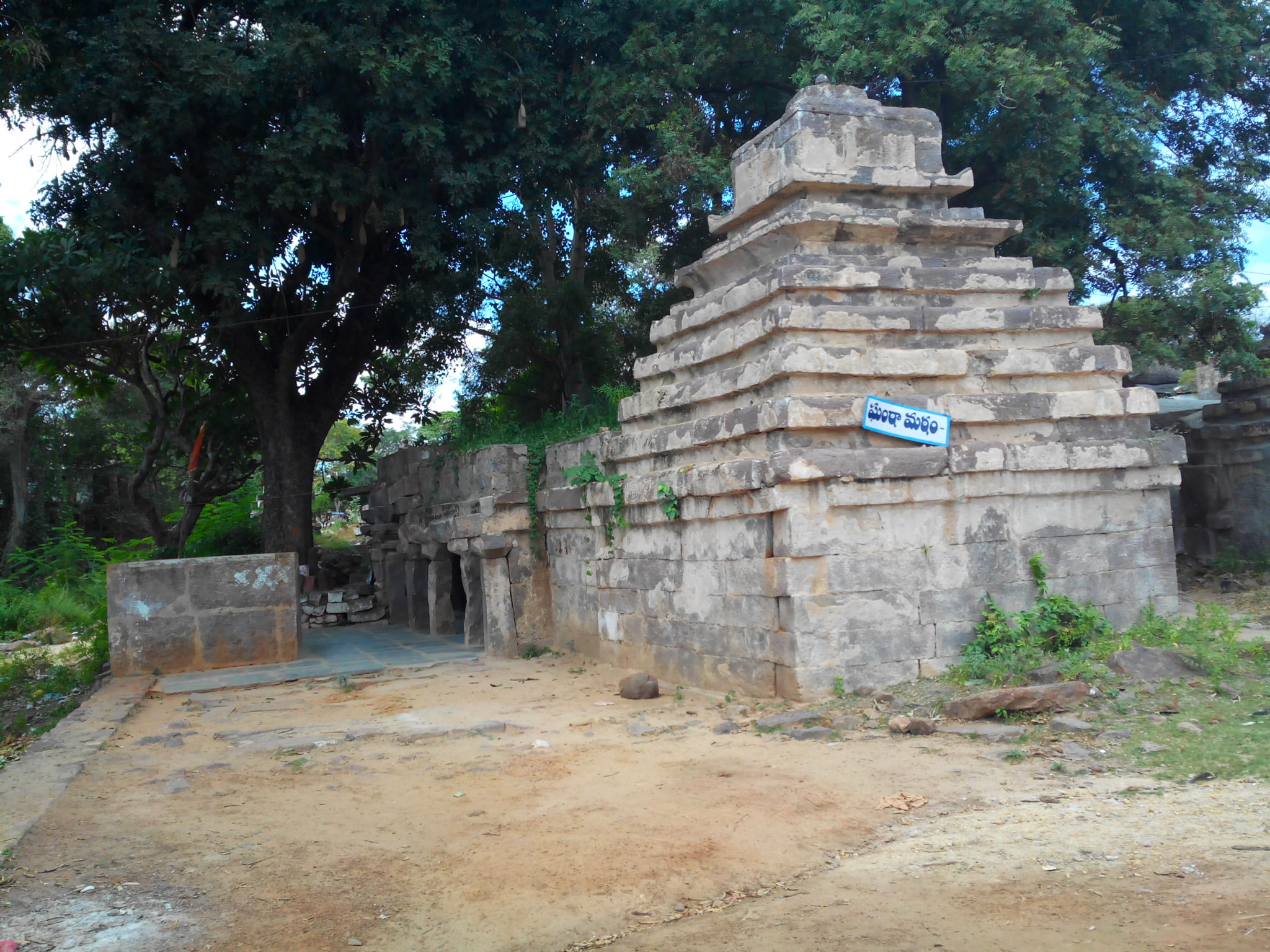 Ghanta Matam (Bell Home)